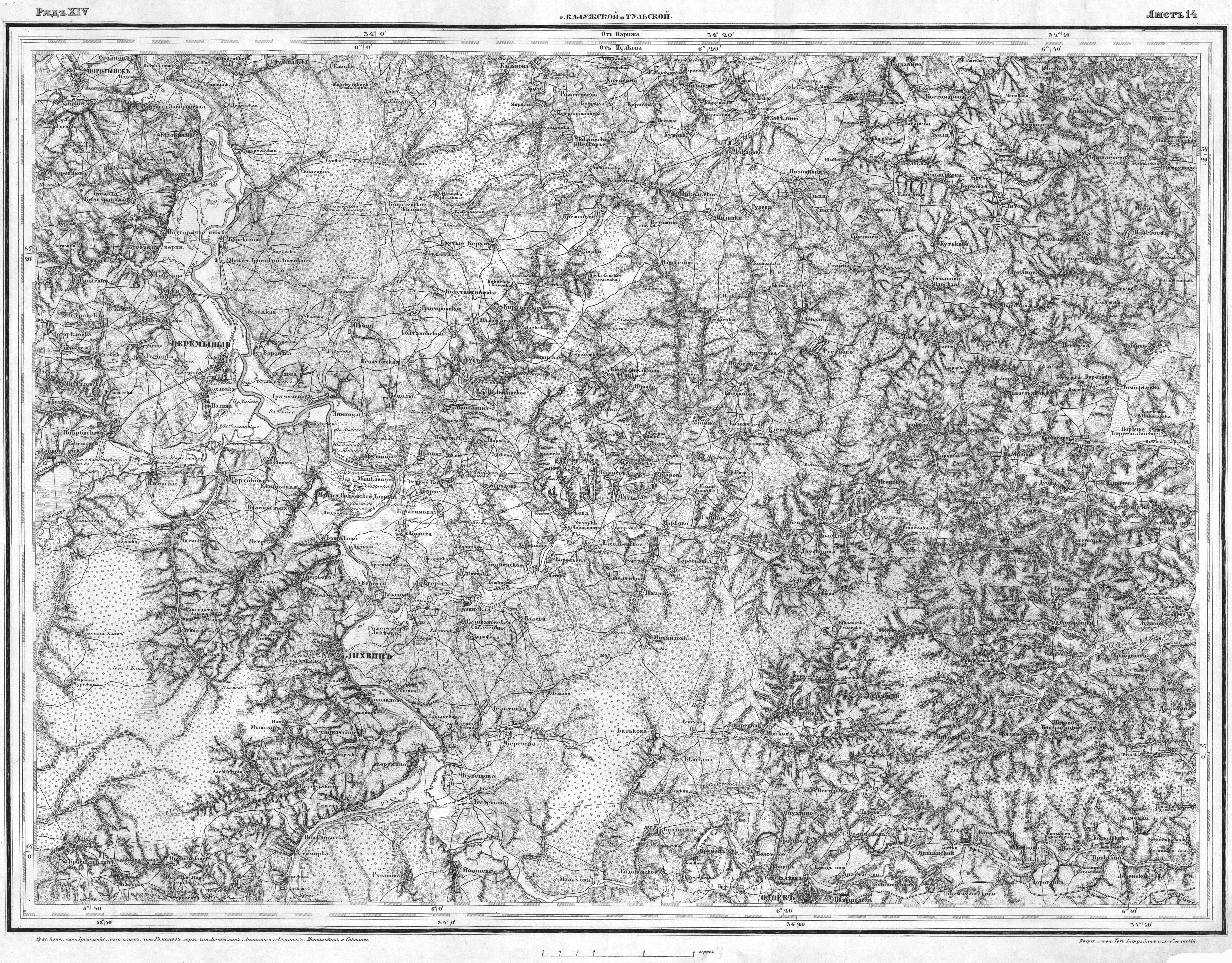 "Shubert map". Fragment of topographic map of Kaluga Governorate years. Printed in 1860-1860. 3 versta in inch (1260 m in 1 cm).